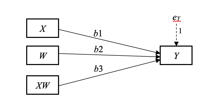 A statistical diagram of a simple moderation model. X is the antecedent; W is the proposed moderator. XW represents the interaction between the two variables.